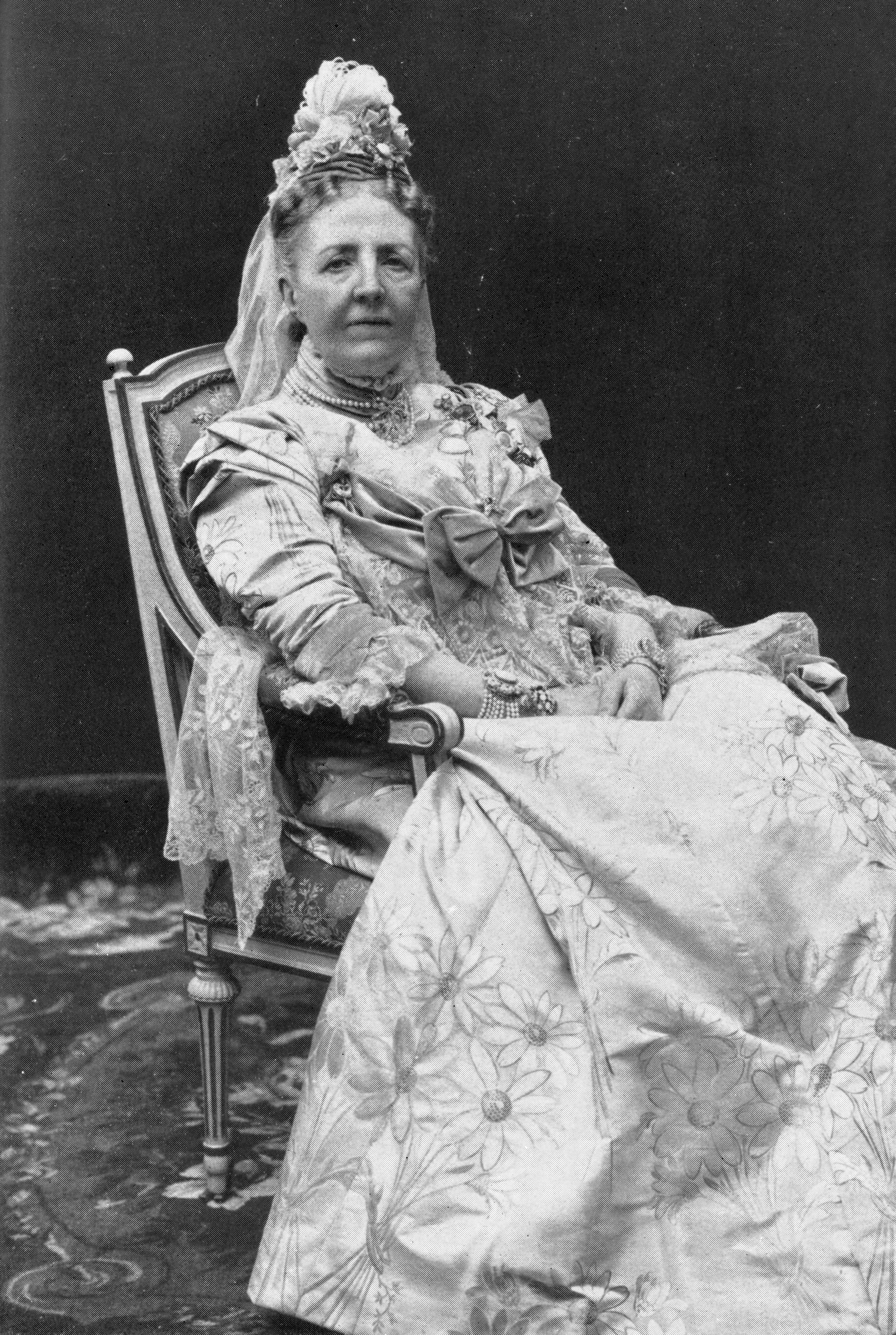 Sophia of Nassau, queen of Sweden.